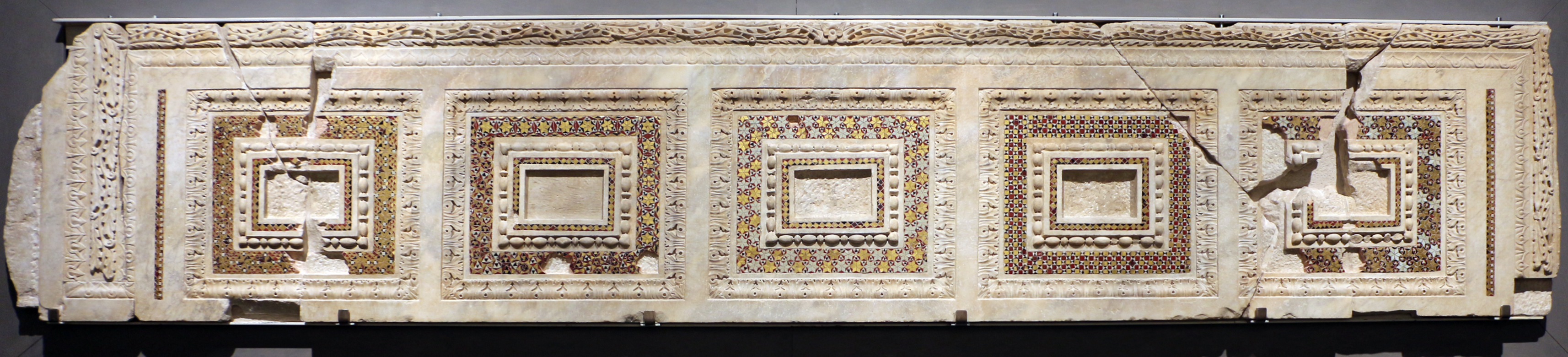 Museo dell'Opera del Duomo (Florence) - Mosaics